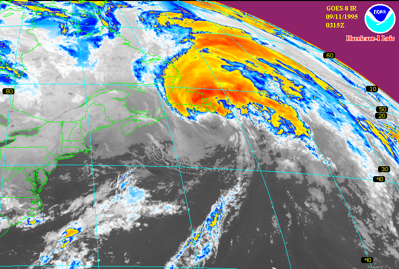 This image shows Hurricane Luis hitting Canada in September of 1995.